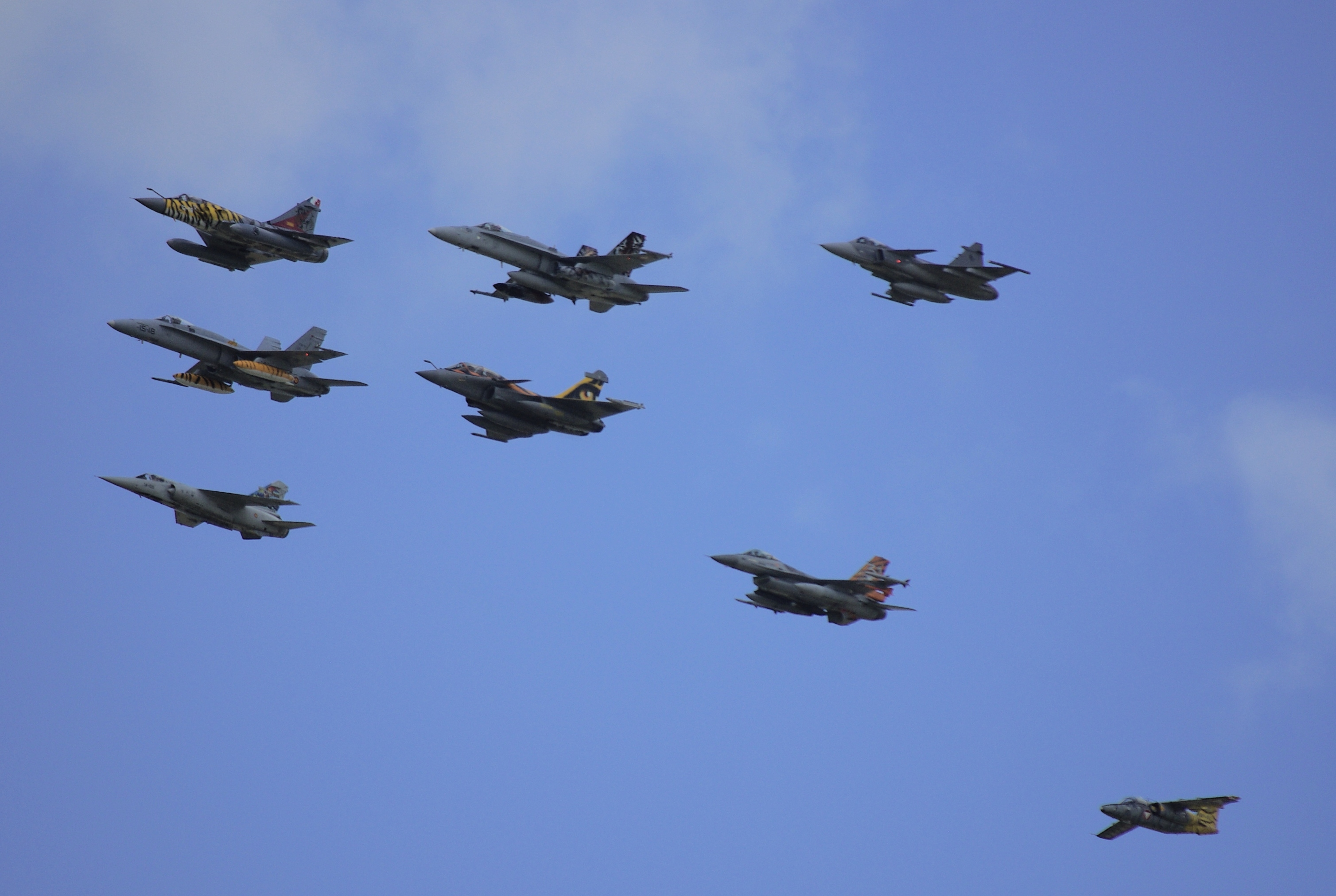 Mixed formation of the aircrafts of the NATO Tiger 2008 at NAS Landivisiau (France) : 1 Mirage 2000C, 2 F/A-18 Hornet, 1 Mirage F1 CE, 1 Rafale B, 1 JAS 39 Gripen, 1 F-16, 1 Saab 105.